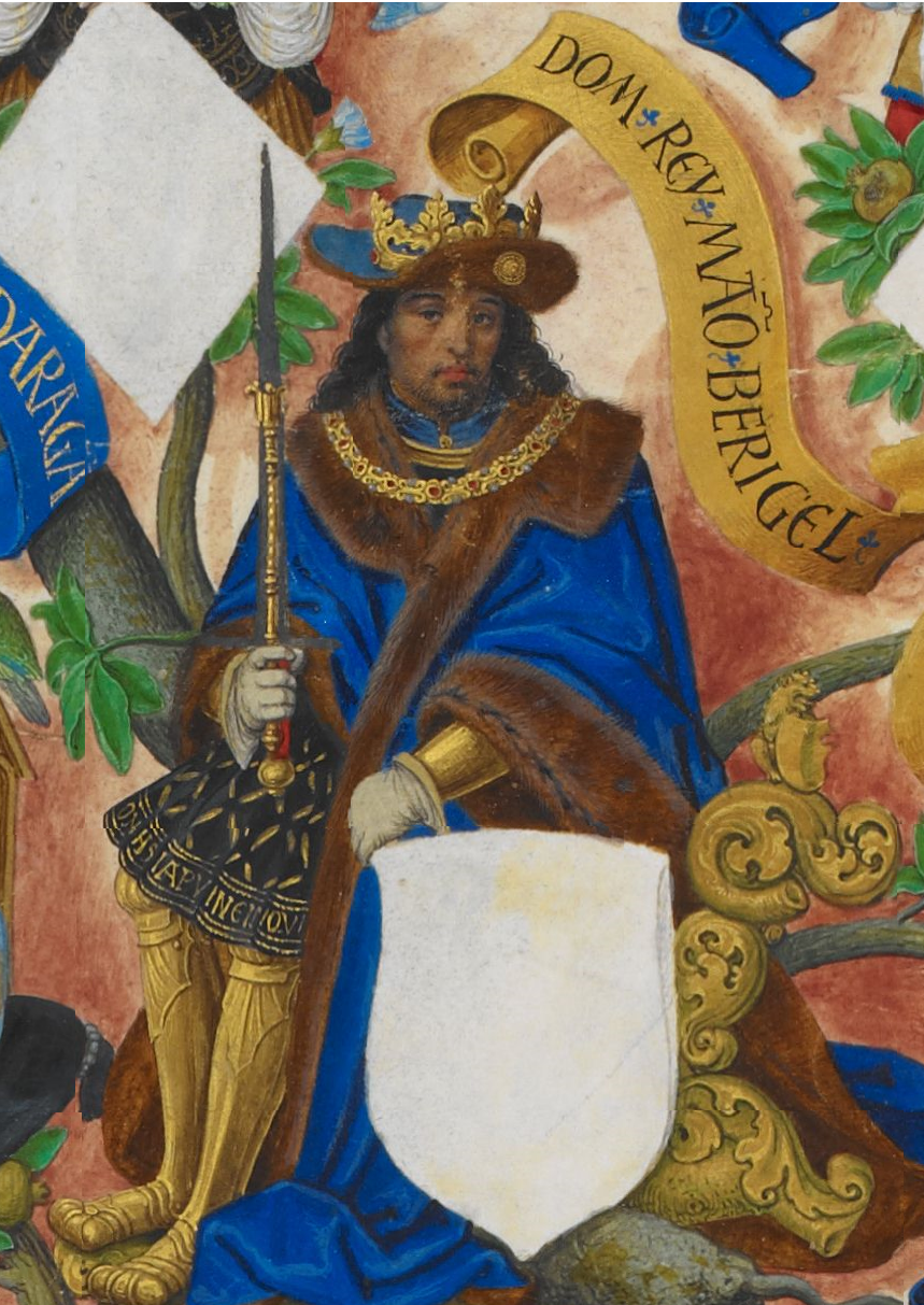 Count Ramon Berenguer IV of Barcelona